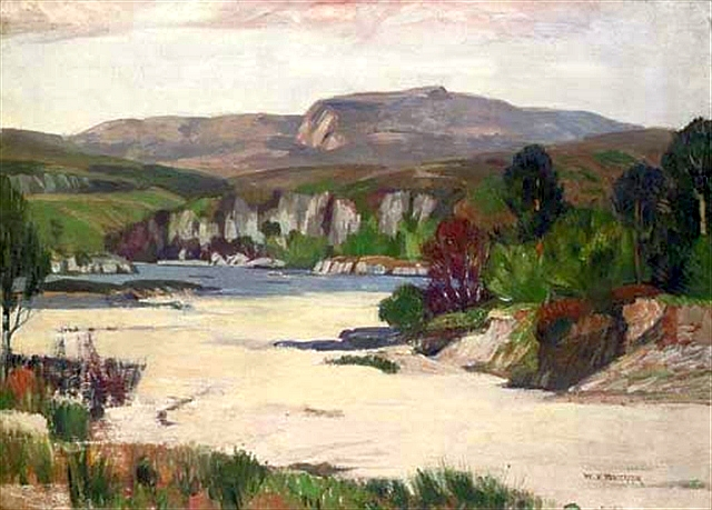 The Sands Of Morar